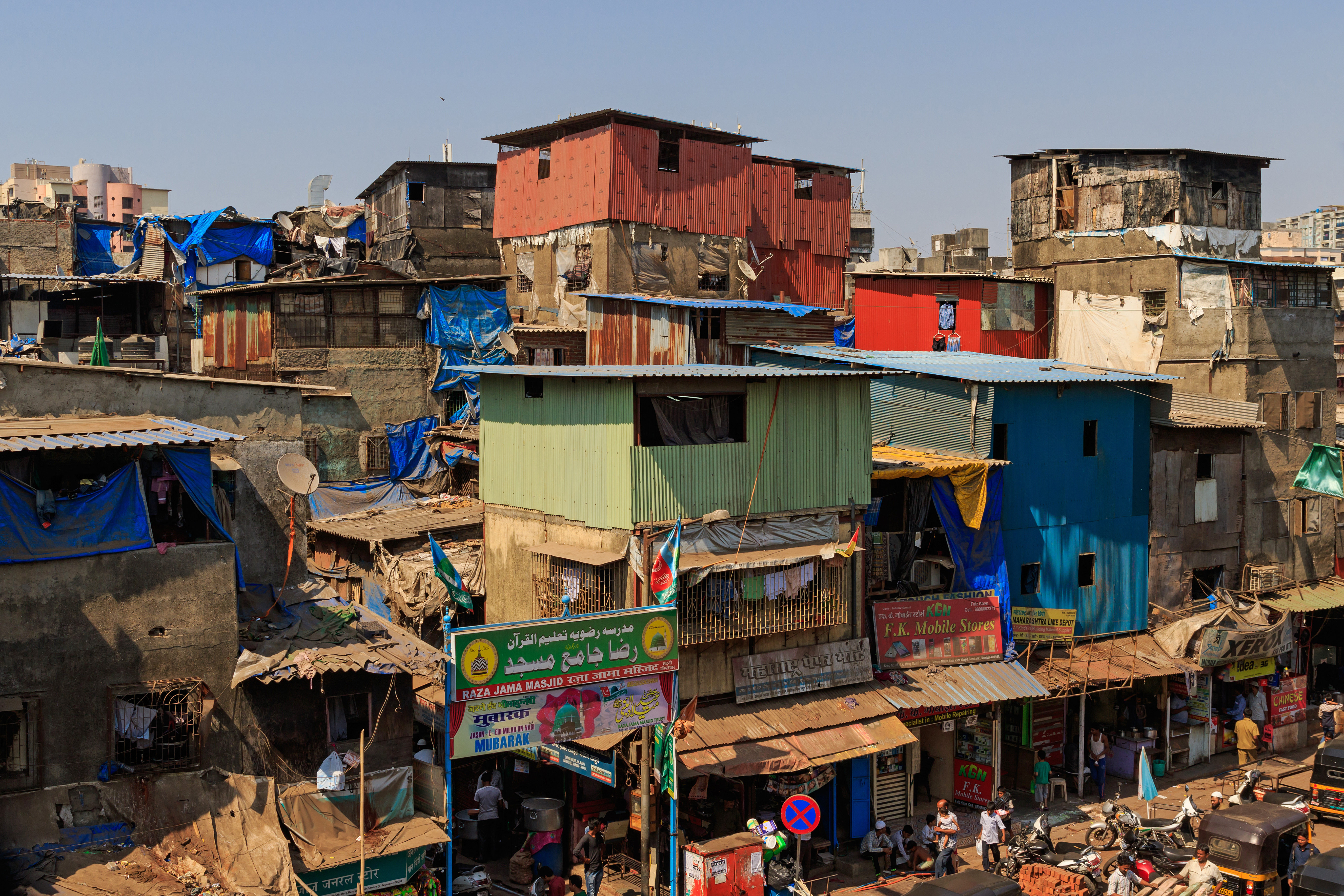 Near surroundings of Bandra railway station in Mumbai, India